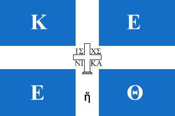 Flag hoisted at the Arkadi Monastery during the 1866 Cretan Uprising, and preserved by Charikleia Daskalaki [1]